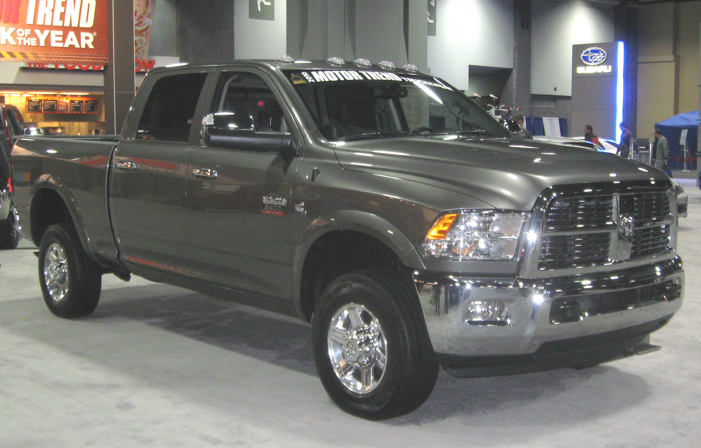 2010 Ram 3500 photographed at the 2010 Washington Auto Show.